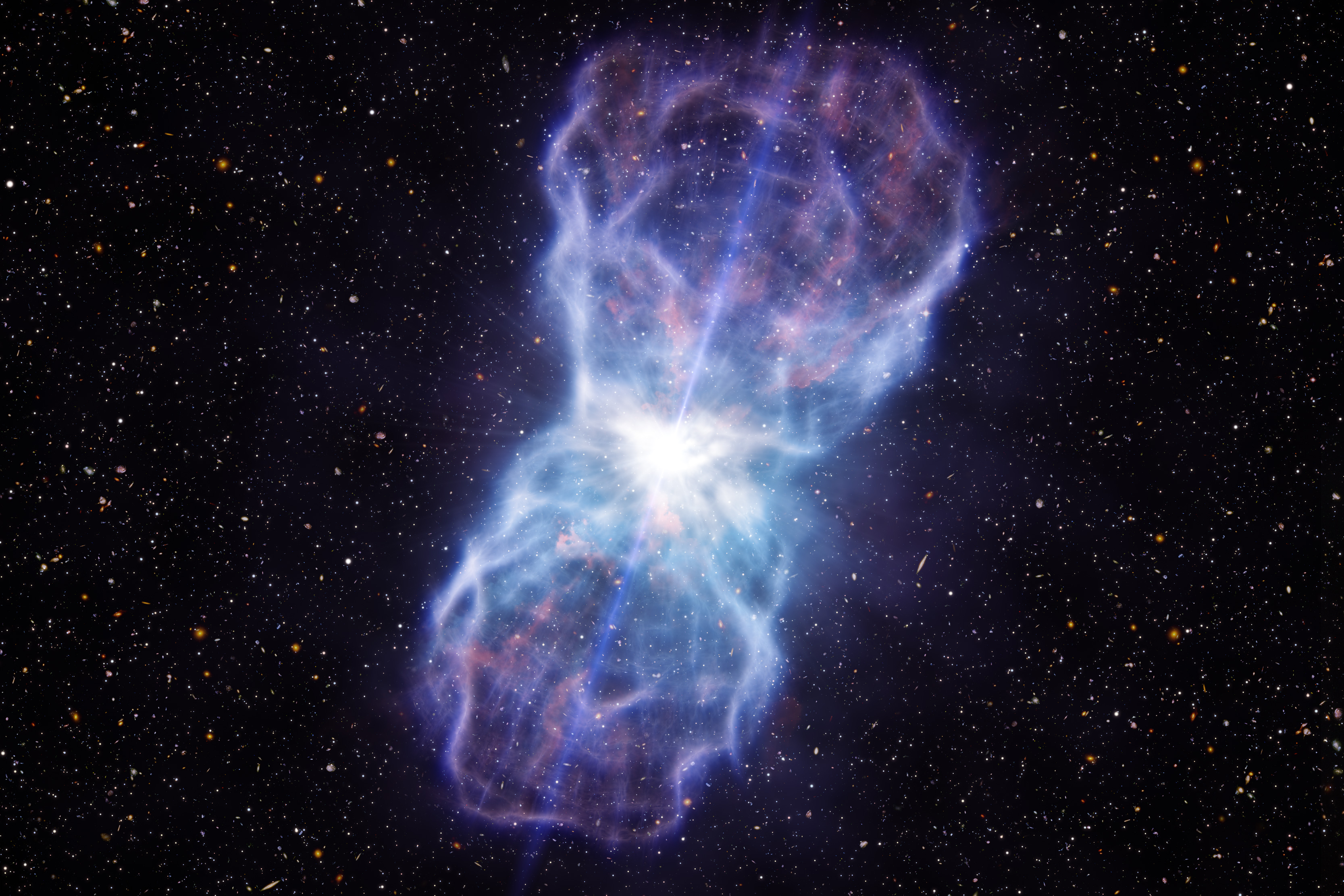 This artist’s impression shows the material ejected from the region around the supermassive black hole in the quasar SDSS J1106+1939. This object has the most energetic outflows ever seen, at least five times more powerful than any that have been observed to date. Quasars are extremely bright galactic centres powered by supermassive black holes. Many blast huge amounts of material out into their host galaxies, and these outflows play a key role in the evolution of galaxies. But, before this object was studied, the observed outflows weren’t as powerful as predicted by theorists. The very bright quasar appears at the centre of the picture and the outflow spreads about 1000 light-years out into the surrounding galaxy.